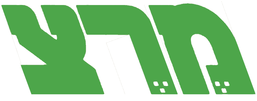 Original logo used by Meretz in 1992, upon its formation as an alliance of Ratz, Shinui and Mapam